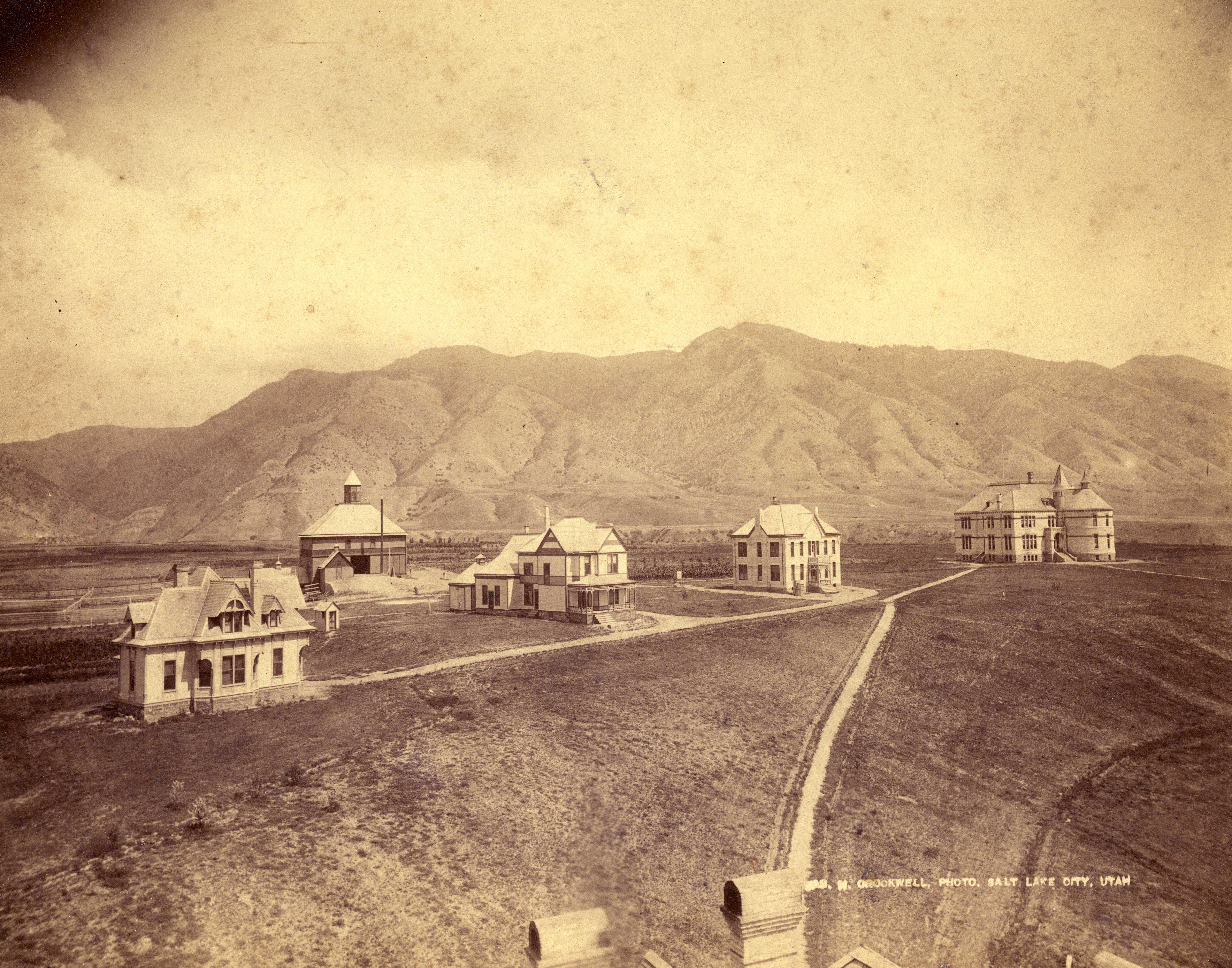 This photo of Utah State University's Old Main and campus was taken in 1892. It is part of a collection within Utah State University's Historical Photo Collection within their Digital Collection archives. USU photograph curator Daniel Davis said this photo is in the public domain.